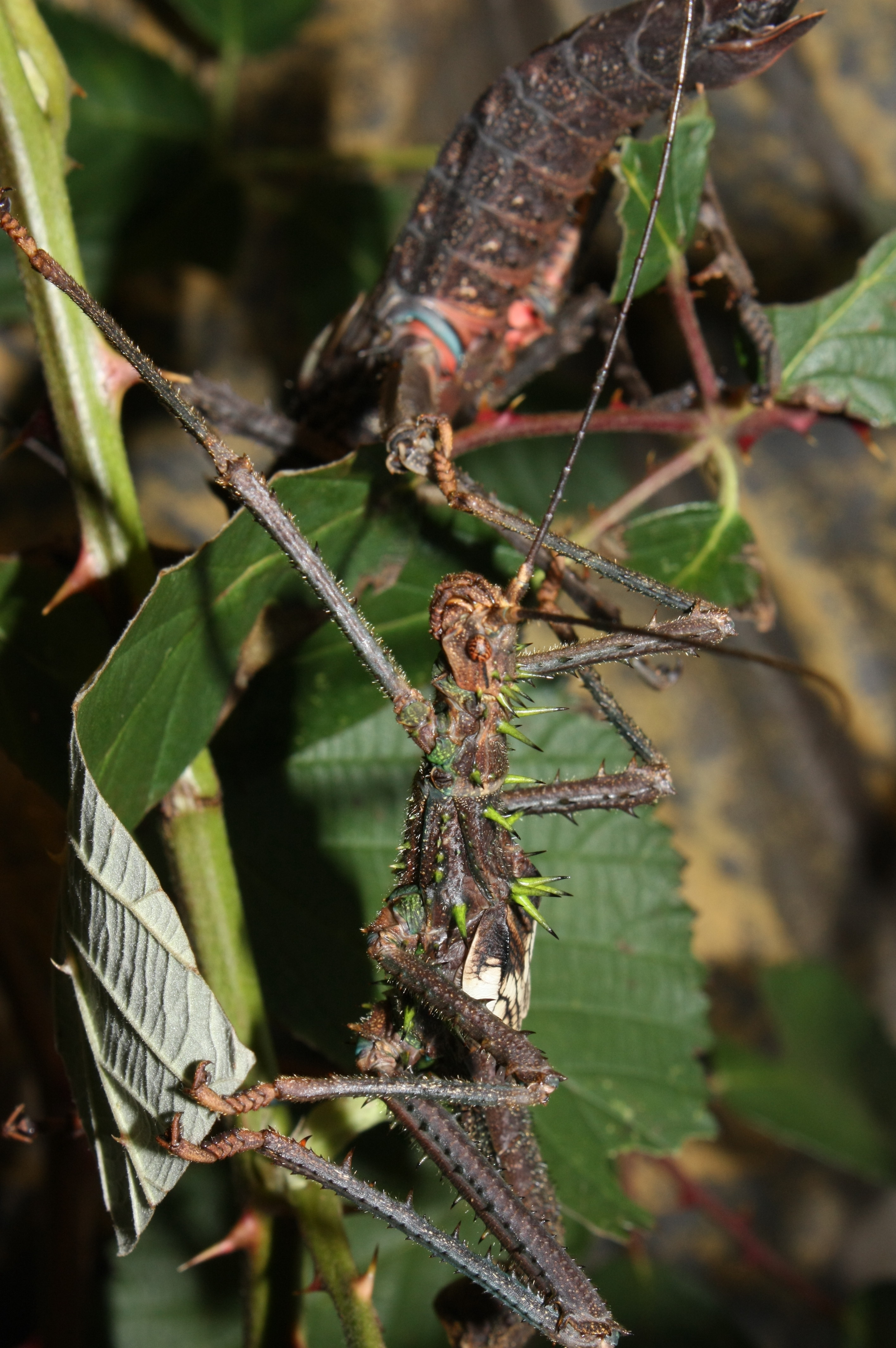 male of Saussure's Haaniella (Haaniella saussurei), behind it subadult female underside